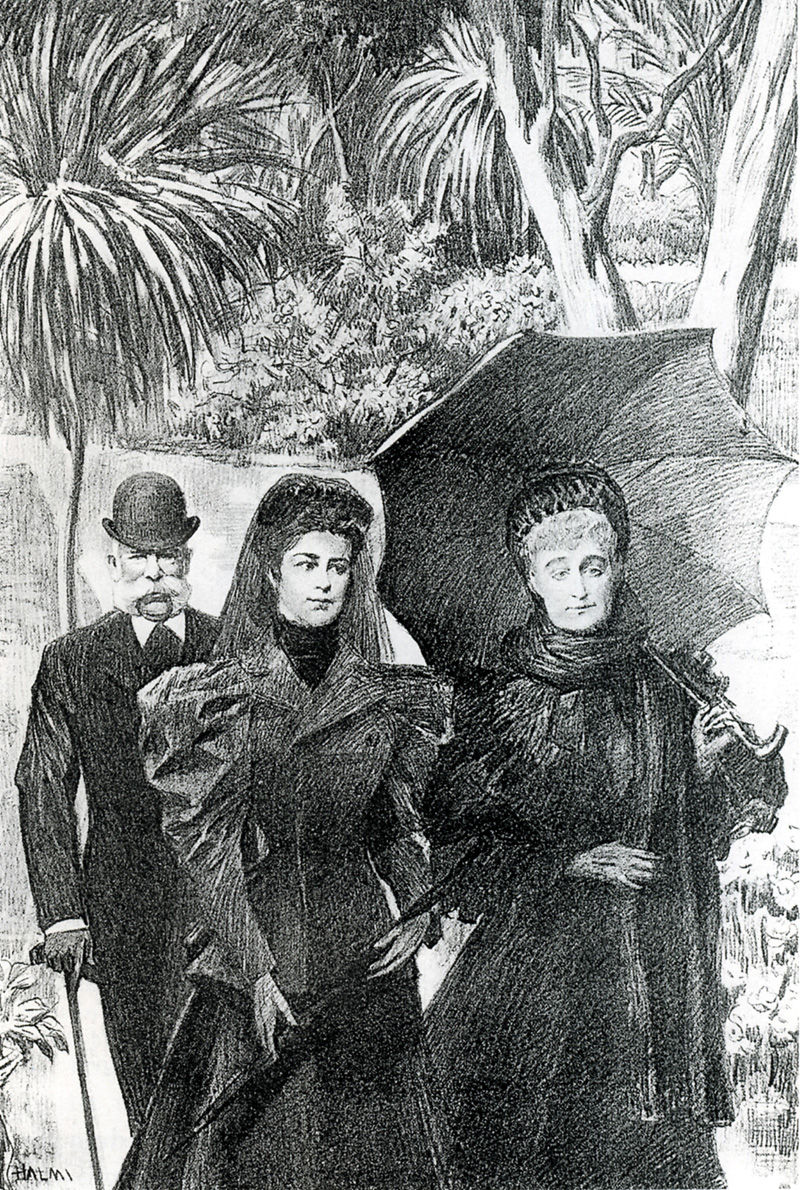 The Empress Eugénie with Elisabeth of Austria and Franz Joseph I, at Cap Martin